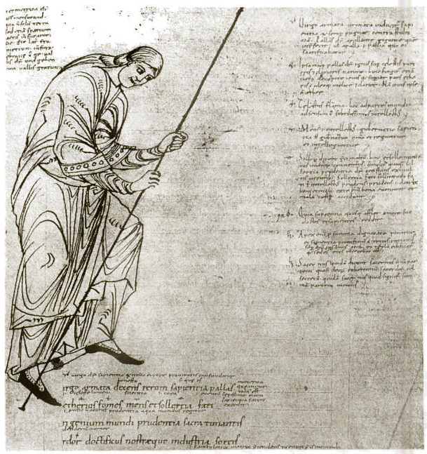 Athena